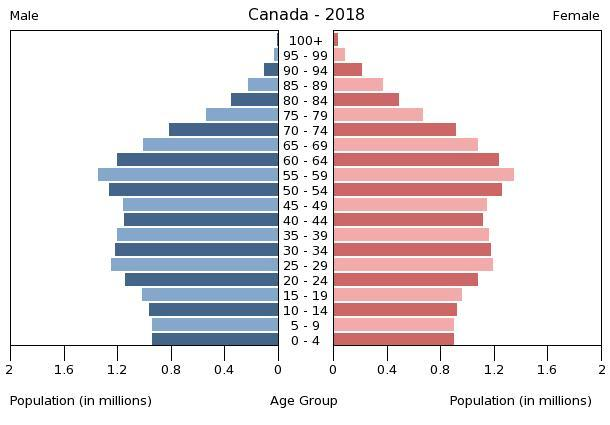 The population pyramid of Canada illustrates the age and sex structure of population and may provide insights about political and social stability, as well as economic development. The population is distributed along the horizontal axis, with males shown on the left and females on the right. The male and female populations are broken down into 5-year age groups represented as horizontal bars along the vertical axis, with the youngest age groups at the bottom and the oldest at the top. The shape of the population pyramid gradually evolves over time based on fertility, mortality, and international migration trends.